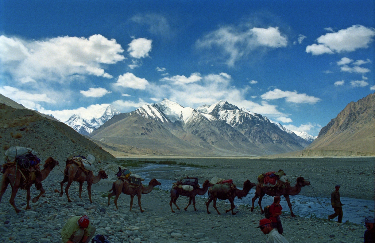 K2 is in the background left K2 is the second-highest mountain on Earth (after Mount Everest). With a peak elevation of 8,611 metres (28,251 ft), K2 is part of the Karakoram segment of the Himalayan range, and is located on the border between Pakistan's northern territories, and the Taxkorgan Tajik Autonomous County of Xinjiang, China. K2 is known as the Savage Mountain due to the difficulty of ascent and the 3rd highest fatality rate among the 'eight thousanders' for those who climb it. For every four people who have reached the summit, one has died trying.